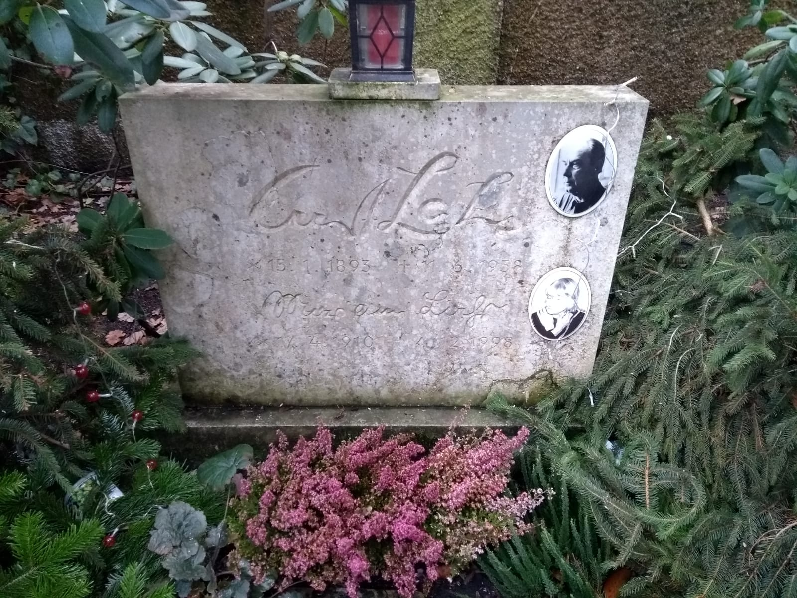 It shows the tombstone from the artist and arts professor Curt Lahs and his artist wife Marianne at "Friedhof Zehlendorf".